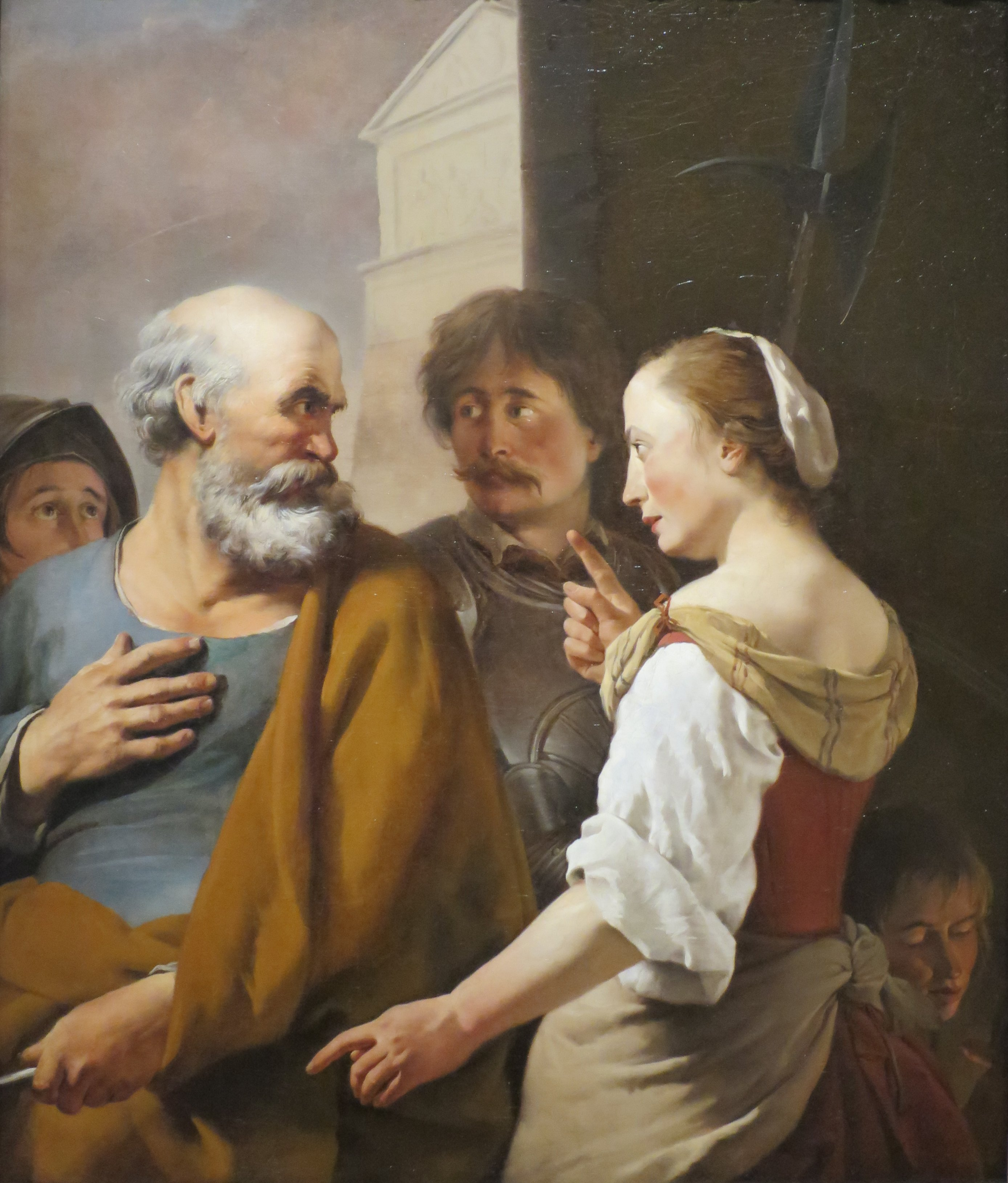 Karel Dujardin, Denial of Peter, Oil on canvas, 119.4 x 104.1 cm, c. 1663, Norton Simon Art Foundation